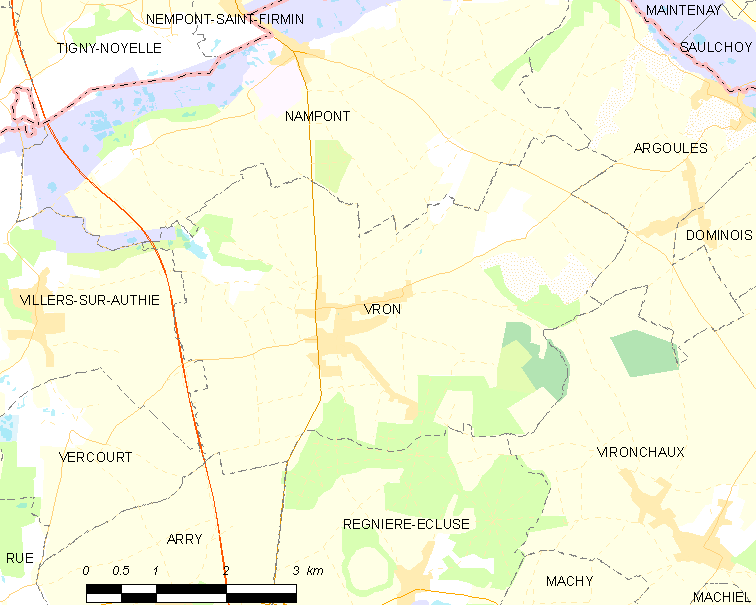 Map of French municipality Vron